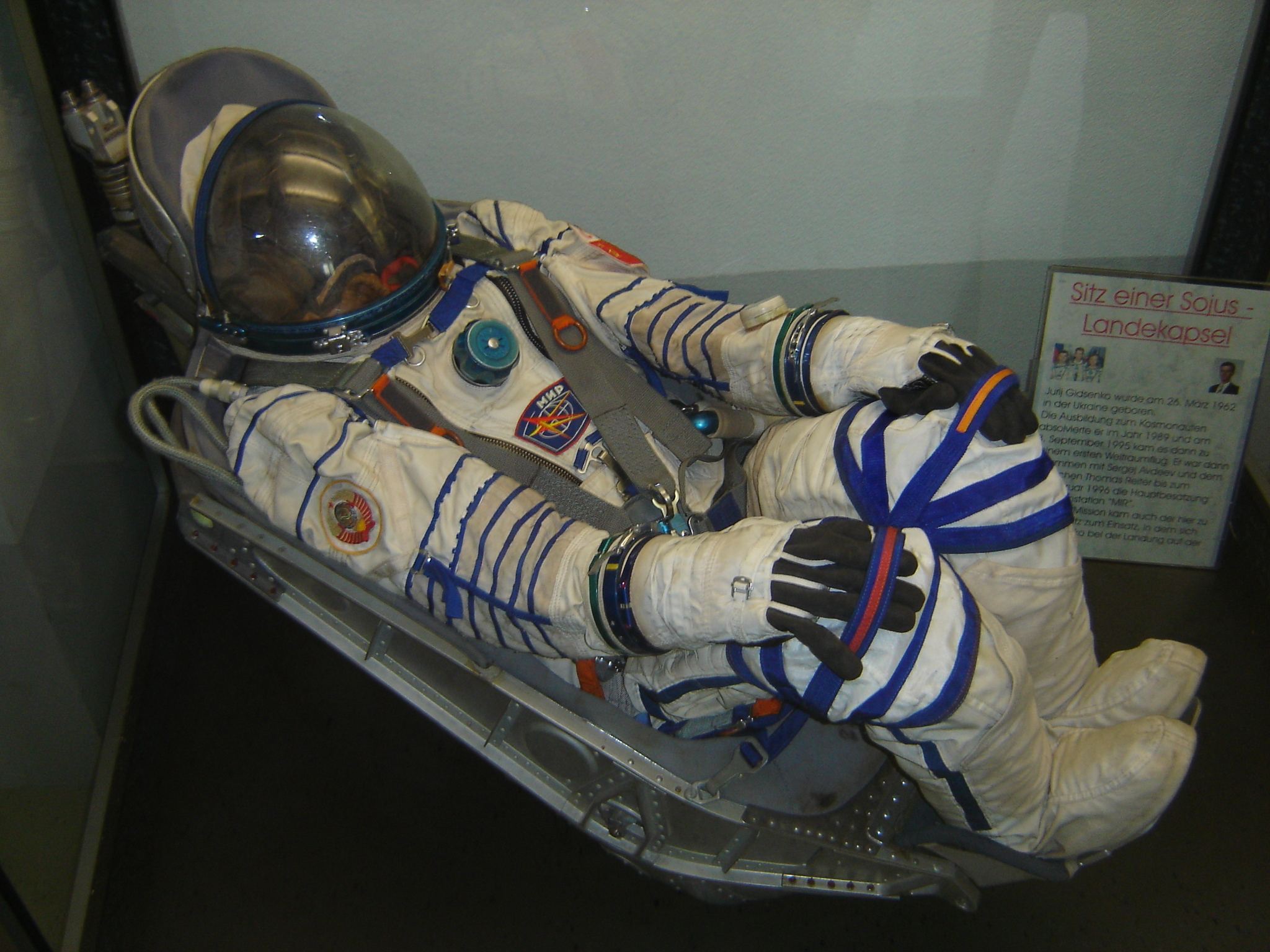 A seat from Soyuz landing capsule with the space suit of Yuri Gidzenko. Taken in Technical Museum Speyer.